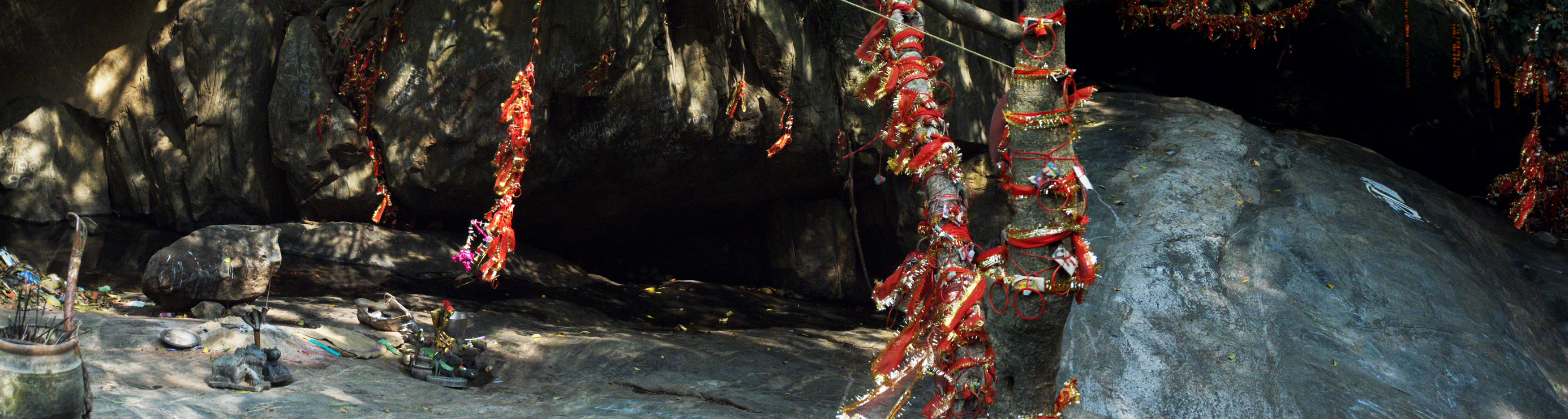 Panchalingeswara temple is scenic picnic spot in Baleswar which is located 30 kms from Baleswar. This is famous both for Panchalingeswara temple and the picnic spot nearby. There is a state tourism Pantha Nivas in Panchalingeswara for the tourists coming from outside. Picture Taken by ସୁଭ ପା/Subhashish Panigrahi